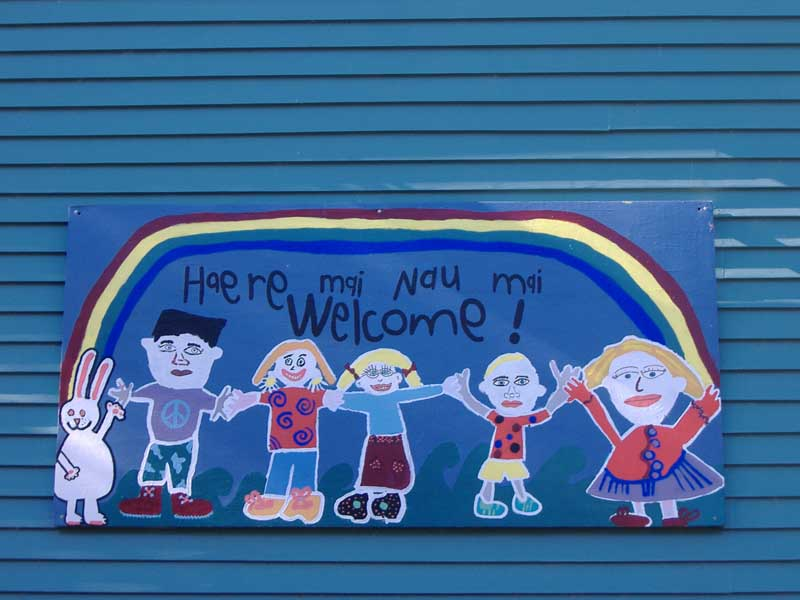 Sign at top of driveway DS